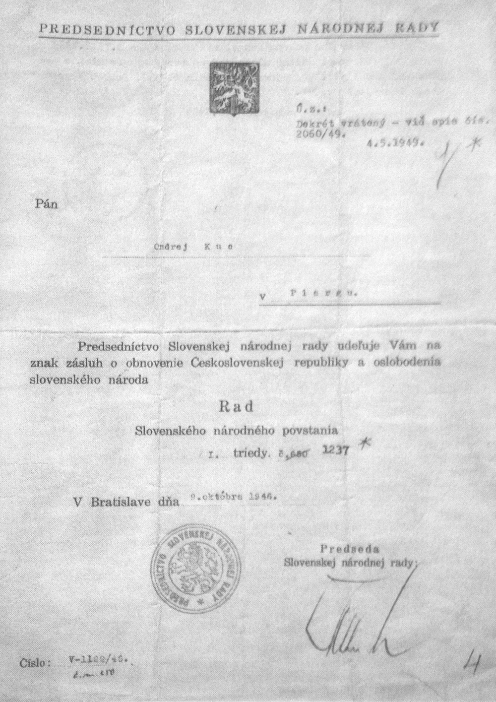 Andrej Kuc Order of the Slovak National Uprising